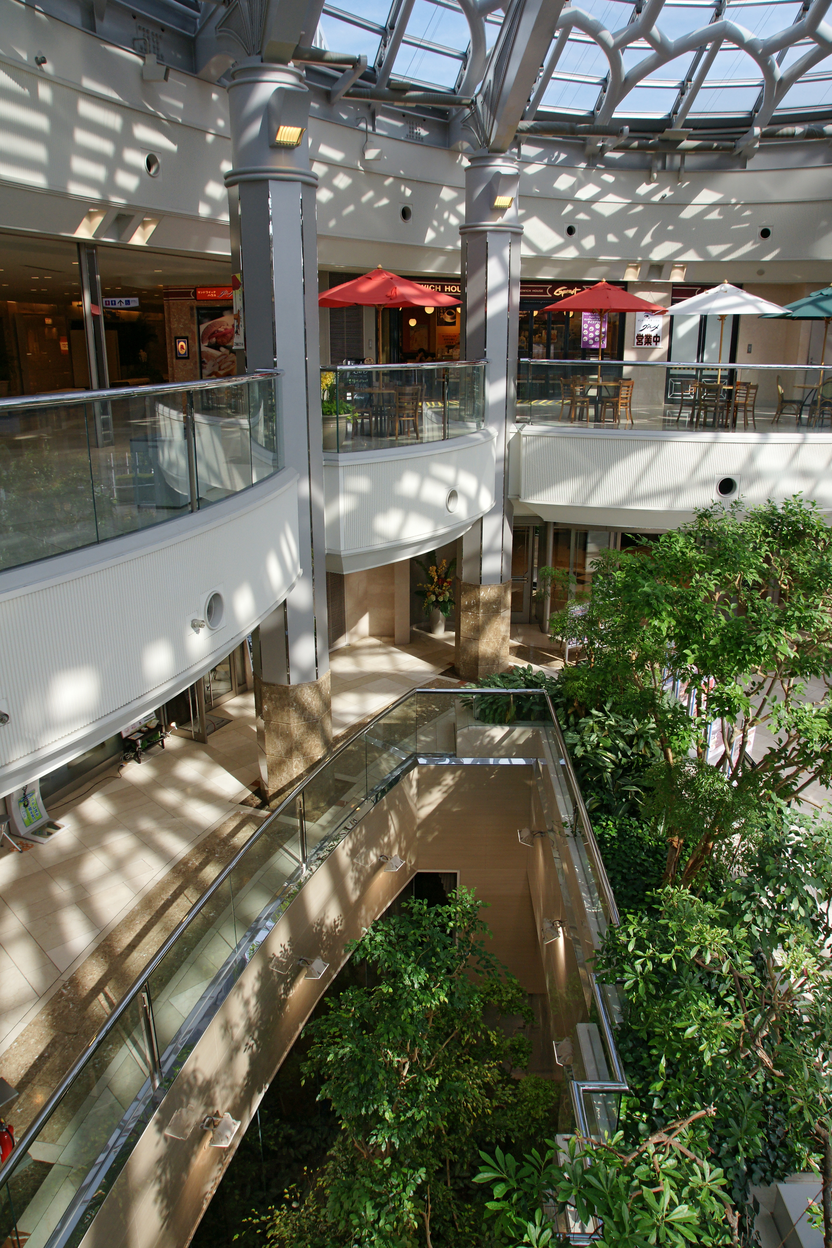 AEROPLAZA, Izumisano, Osaka prefecture, Japan